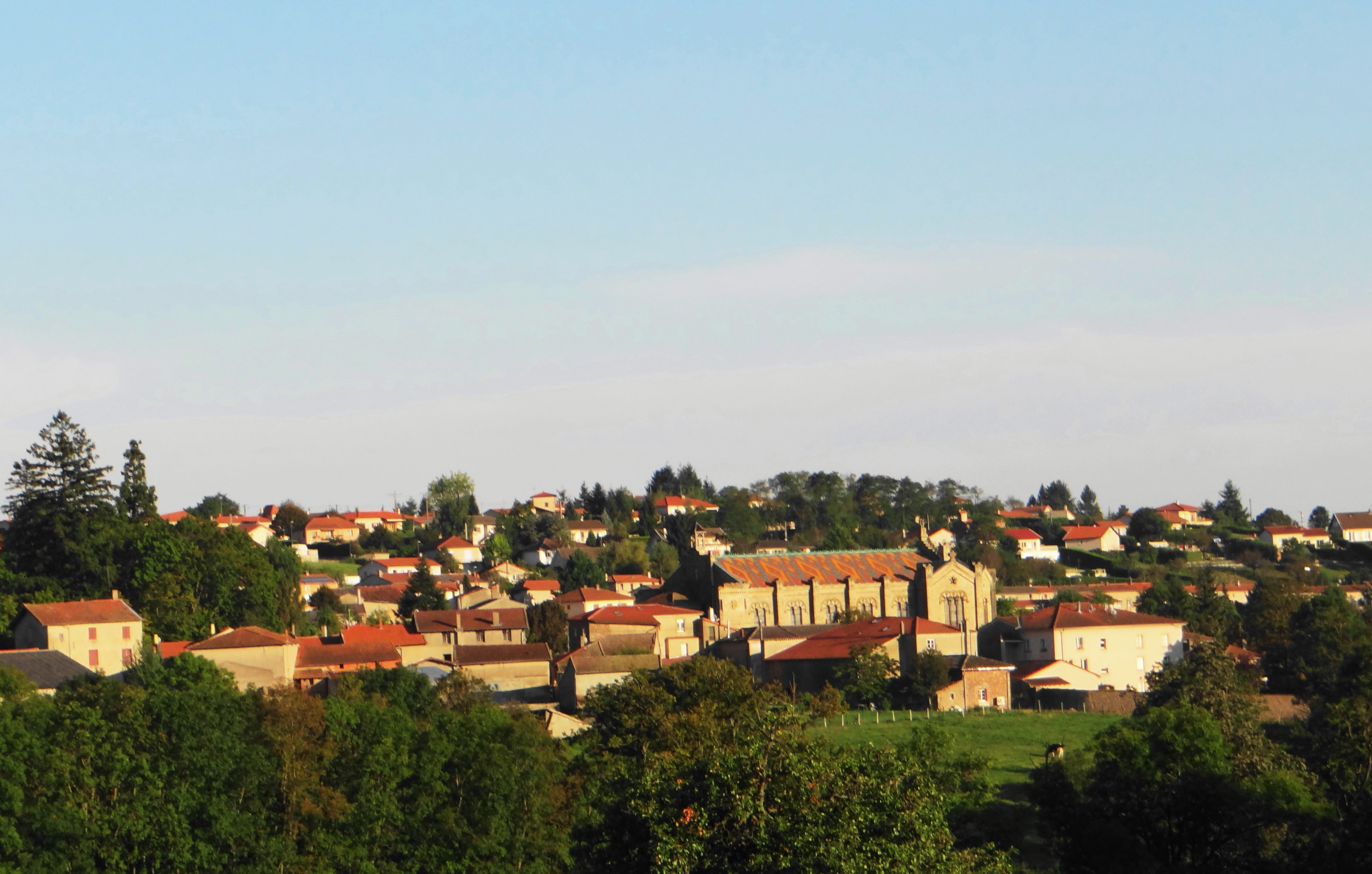 Neulise vue de la route de St Jodard